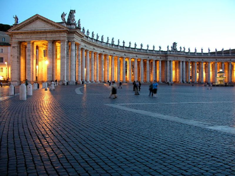 The Bernini collonade of the Saint Peter Square in the Vatican.